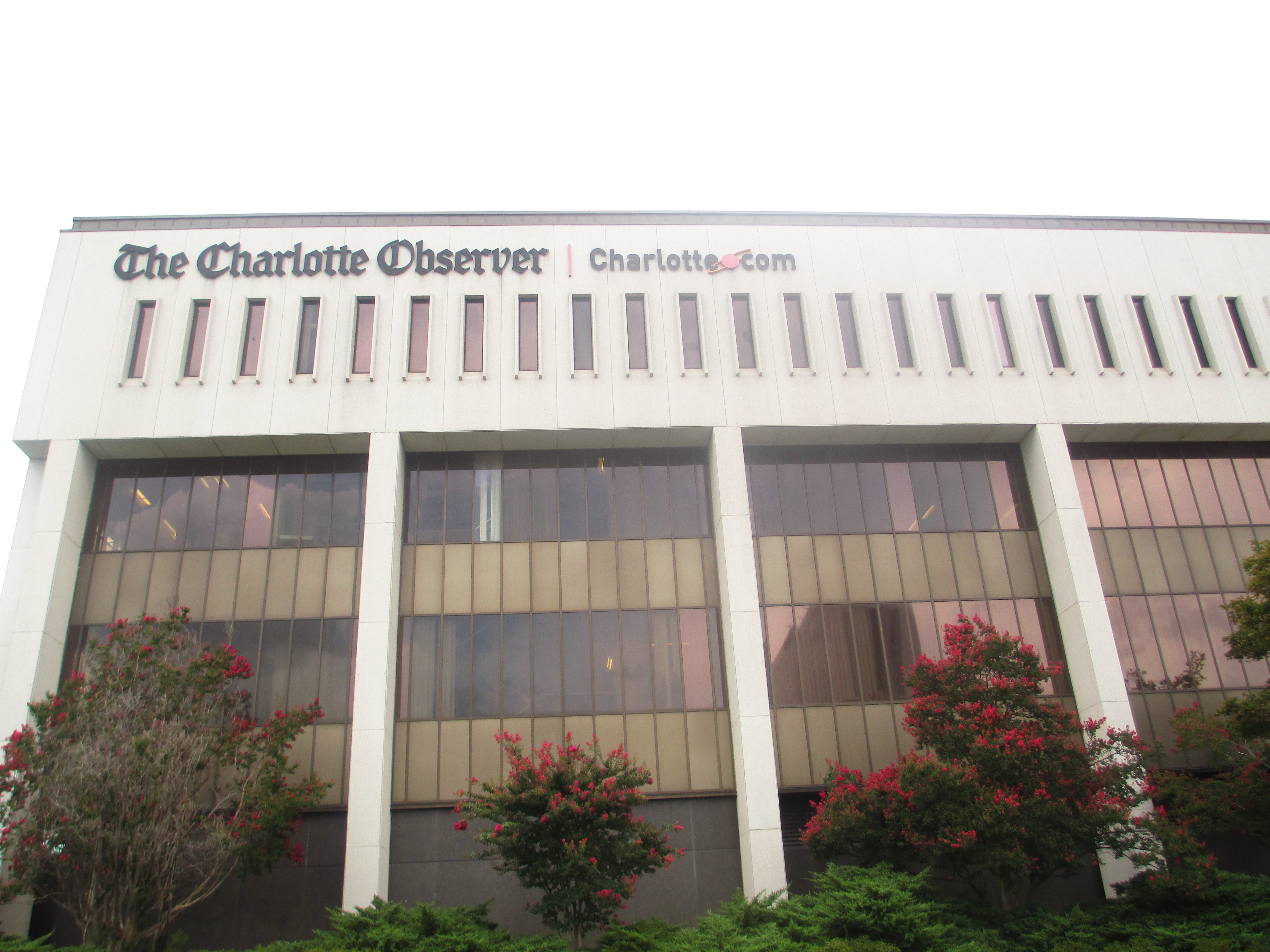 I took photo of Charlotte Observer building with Canon camera.